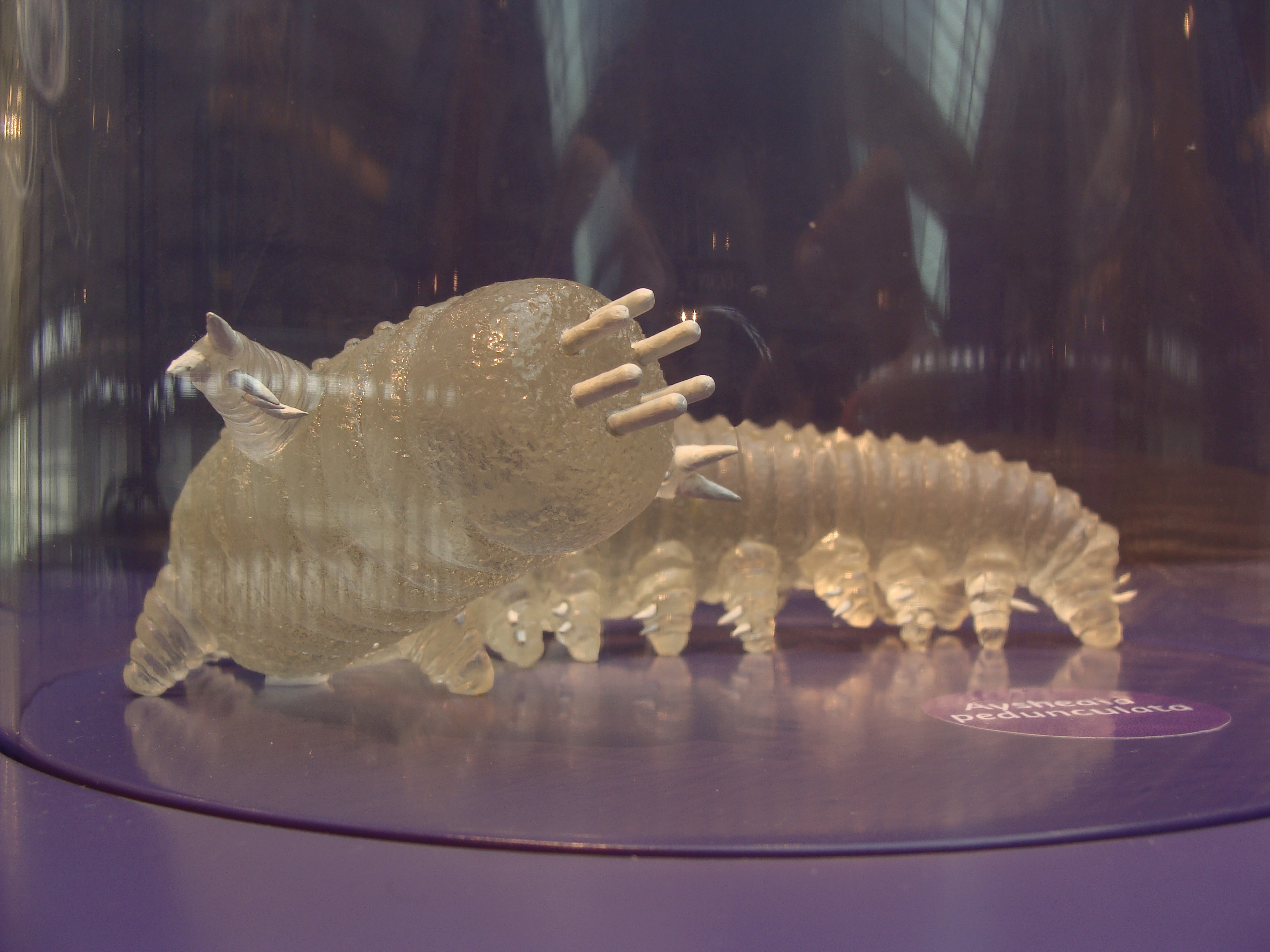 Aysheaia pedunculata in the Royal Belgian Institute of Natural Sciences.